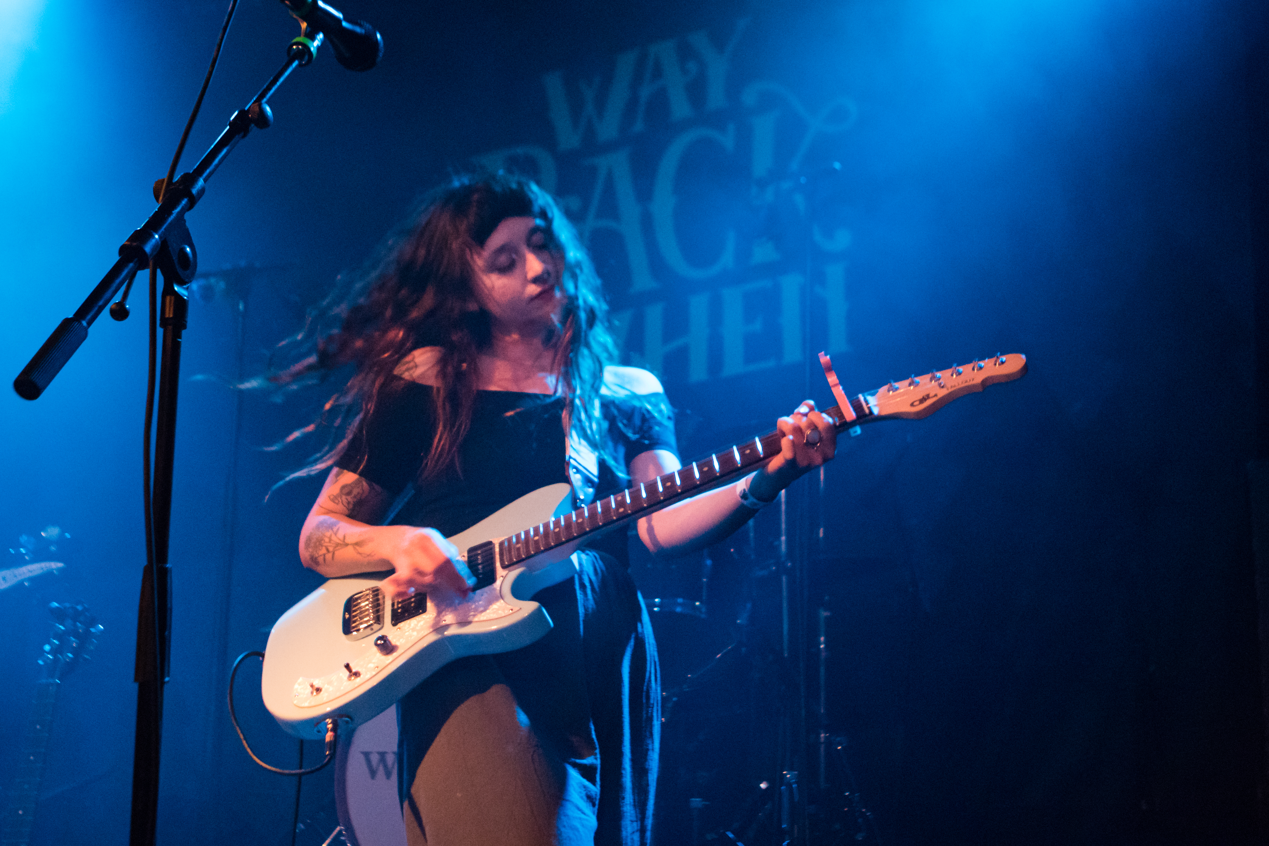 Waxahatchee at Way Back When Festival 2017 in Dortmund